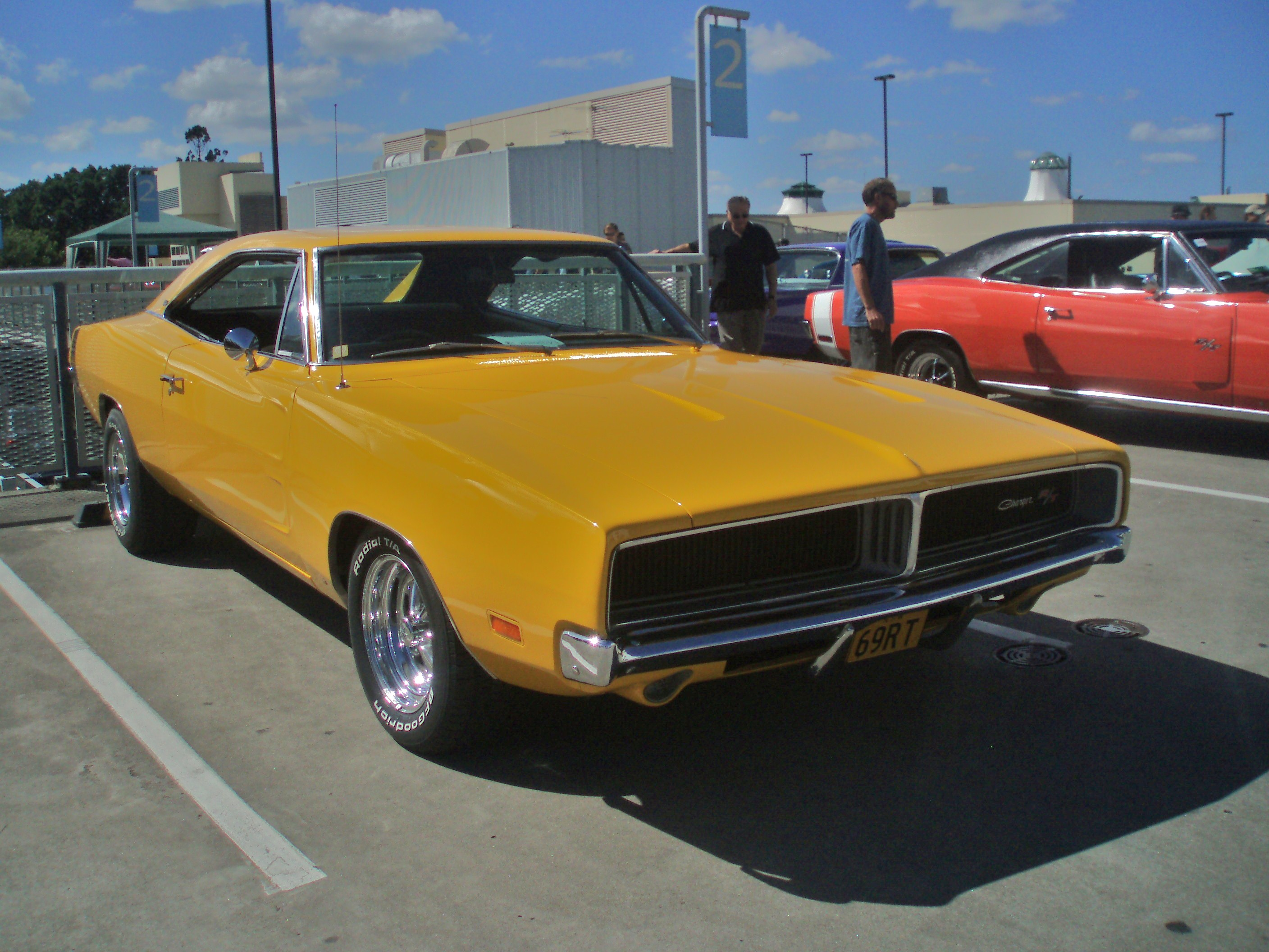 1969 Dodge Charger R/T coupe. Taken at the 2009 New South Wales All American Day, held at Castle Towers Shopping Centre, Castle Hill, Sydney.